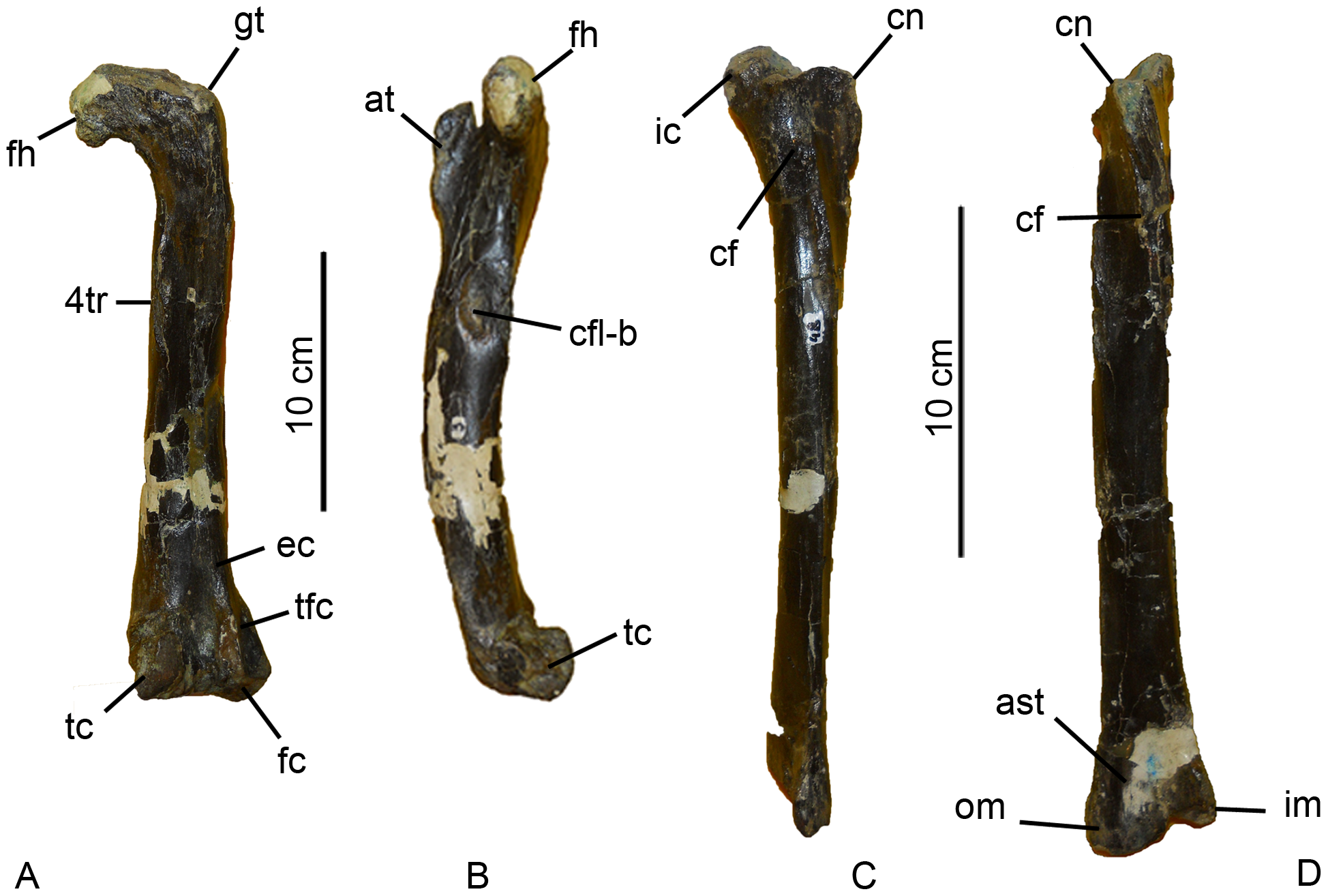 Femur and tibia of Aniksosaurus darwini. Right femur (MDT-PV 1/3) in posterior (A) and medial (B) views. Right tibia (MDT-PV 1/48) in lateral (C) and anterior (D) views. Abbreviations: ast, astragalar depression; at, anterior trochanter; cf, fibular crest ( = crista fibularis); cfl-bf, caudofemoralis longus/brevis fossa; cn, cnemial crest; ec, ectocondylar tuberosity; fc, fibular condyle; fh, femoral head; 4tr, fourth trochanter; gt, greater trochanter; ic, inner condyle; im, inner malleolus; om, outer malleolus; pig, posterior intercondylar groove; tc, tibial condyle; tfc, tibio-fibular crest.